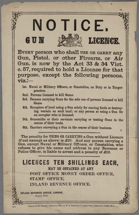 Notice. Gun License